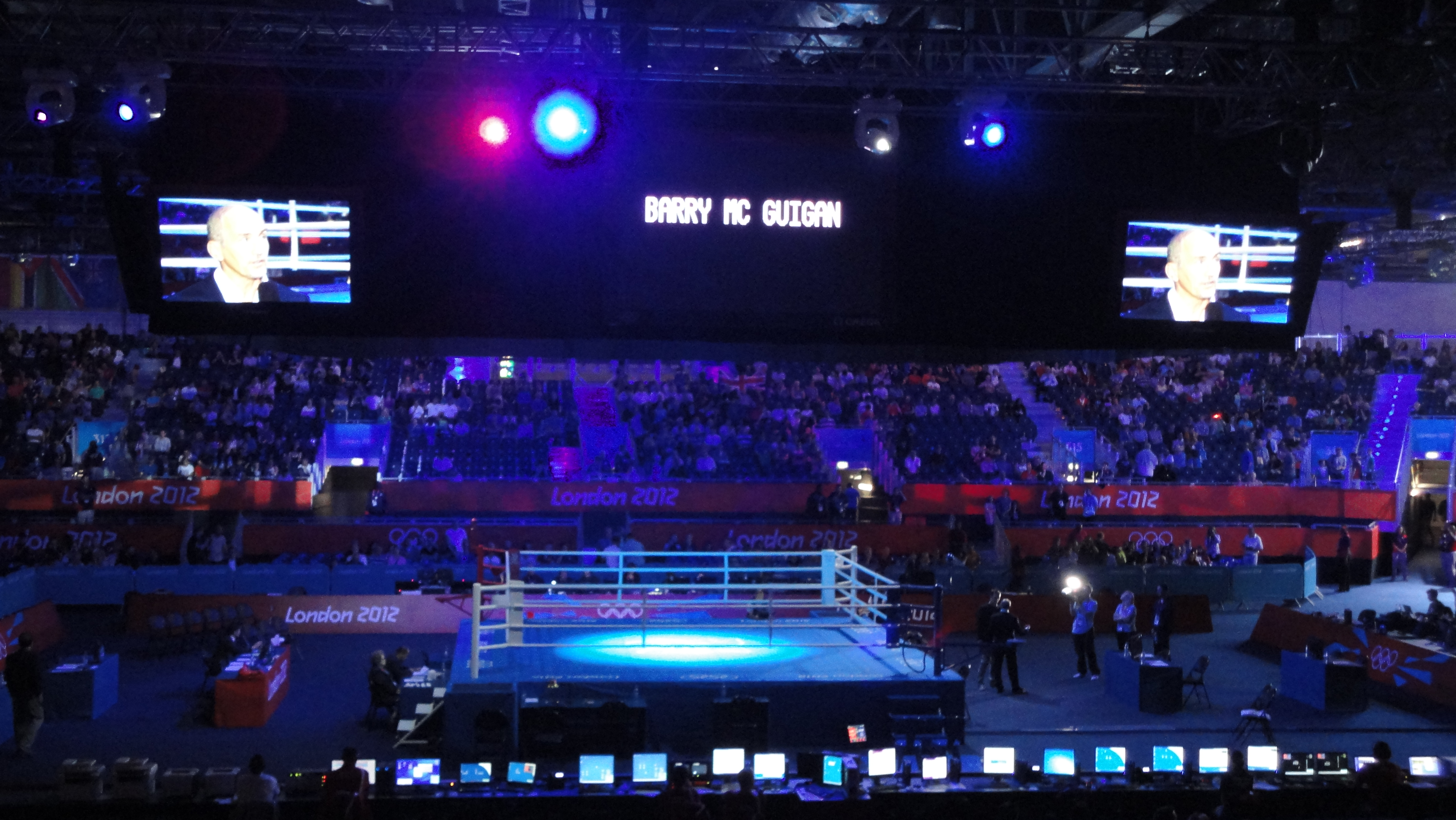 Boxing ring at the ExCeL London during the 2012 Summer Olympics. The person on the screen is Barry McGuigan.